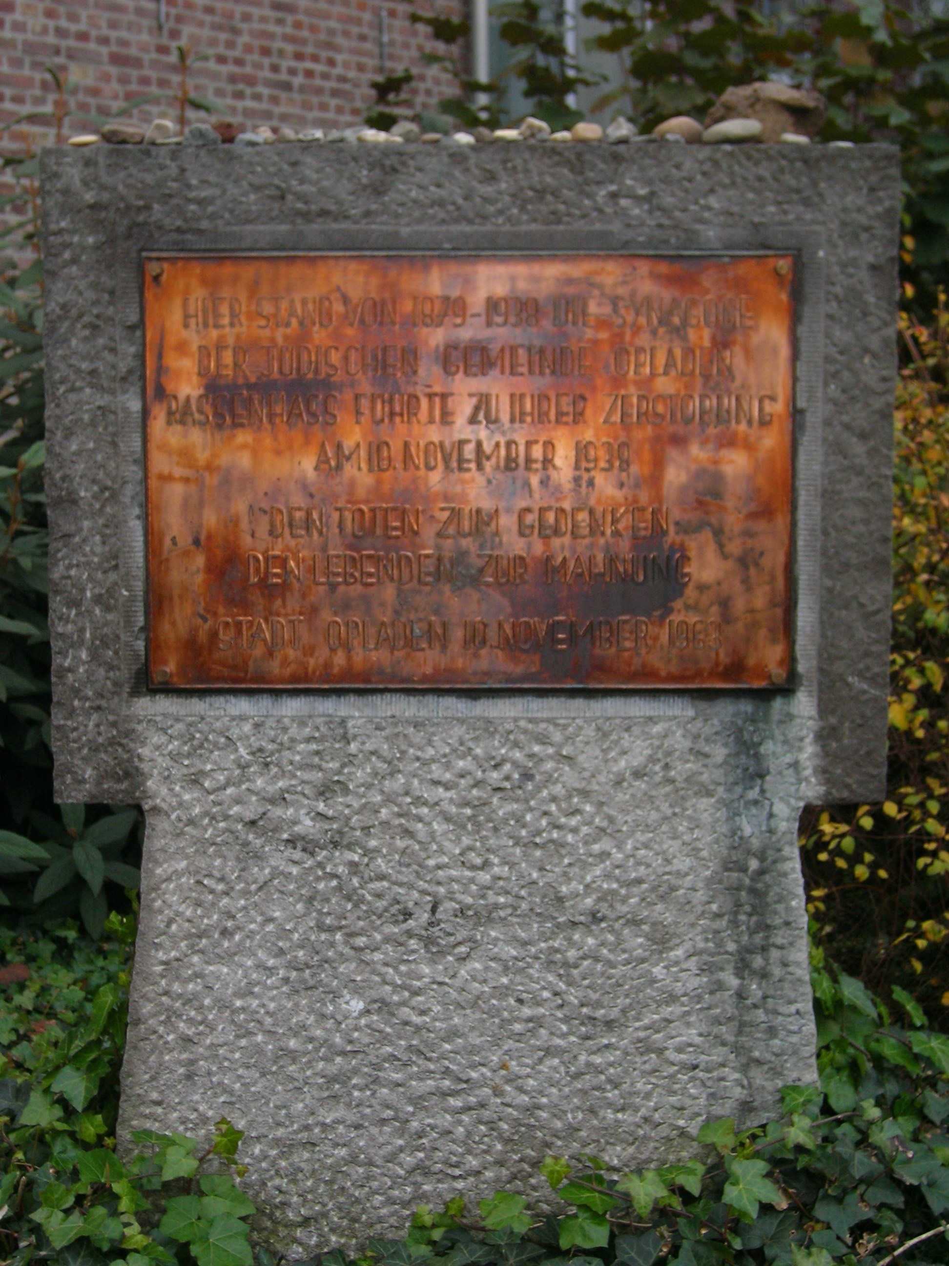 Plaque on the memorial of the synagogue in Opladen.